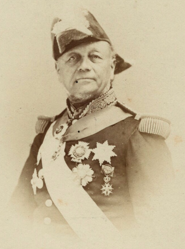 Édouard Bouët-Willaumez